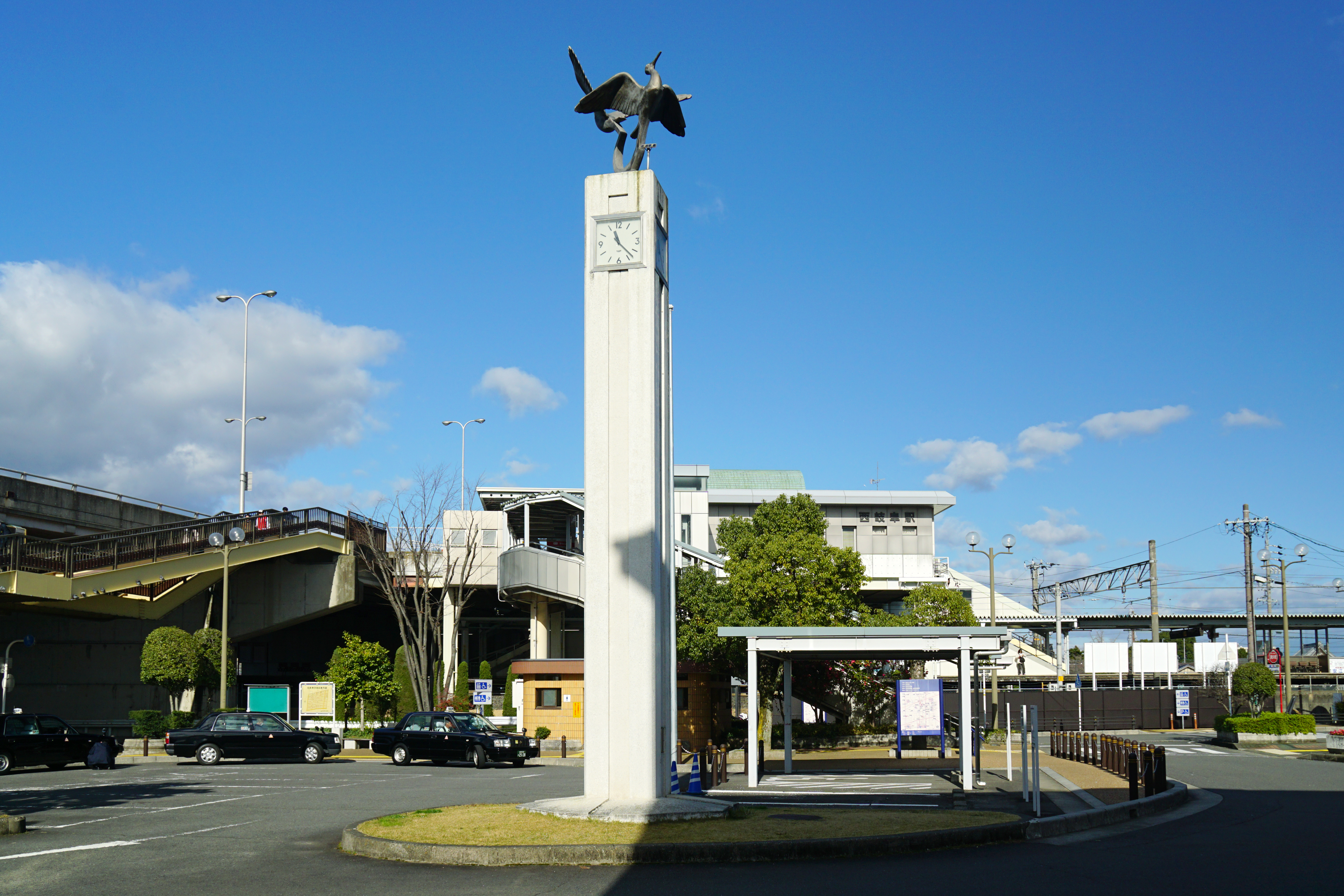 At Nishi-Gifu Station in Gifu, Gifu prefecture, Japan